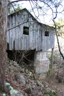 Klepzig Mill, Shannon County, Missouri, USA in the Ozrd National Scenic Riverways